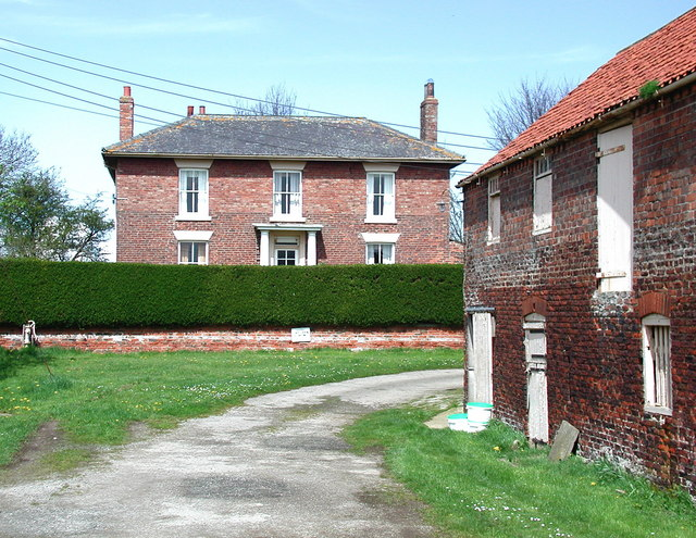 Haverham Farm, Hempholme in the East Riding of Yorkshire, England.Farm on the northeast side of the Barff Hill road at Hempholme in the northwest corner of Brandesburton parish.